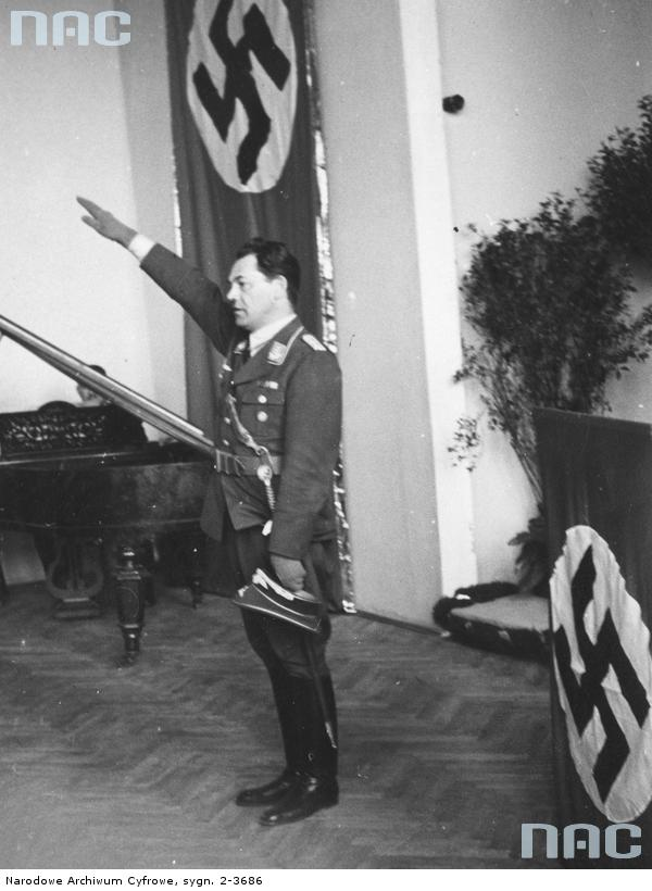 Ernst Kundt